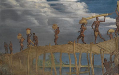 Fort Archambault bridge — across the Chari River in Sarh (Fort Archambault in the 1920s), Chad. 1926 painting from the African journey by Alexander Yakovlev.